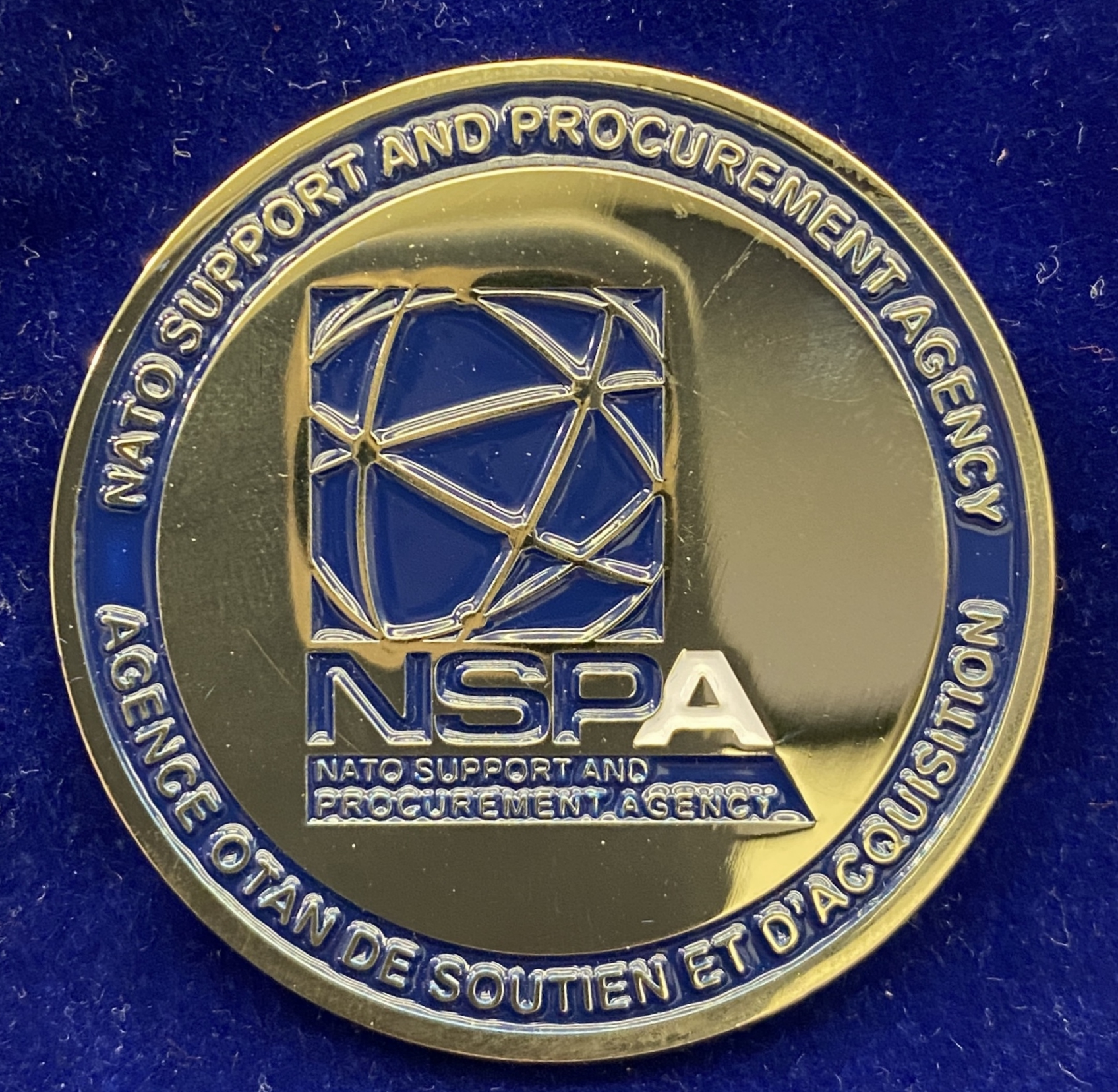 NSPA Medal